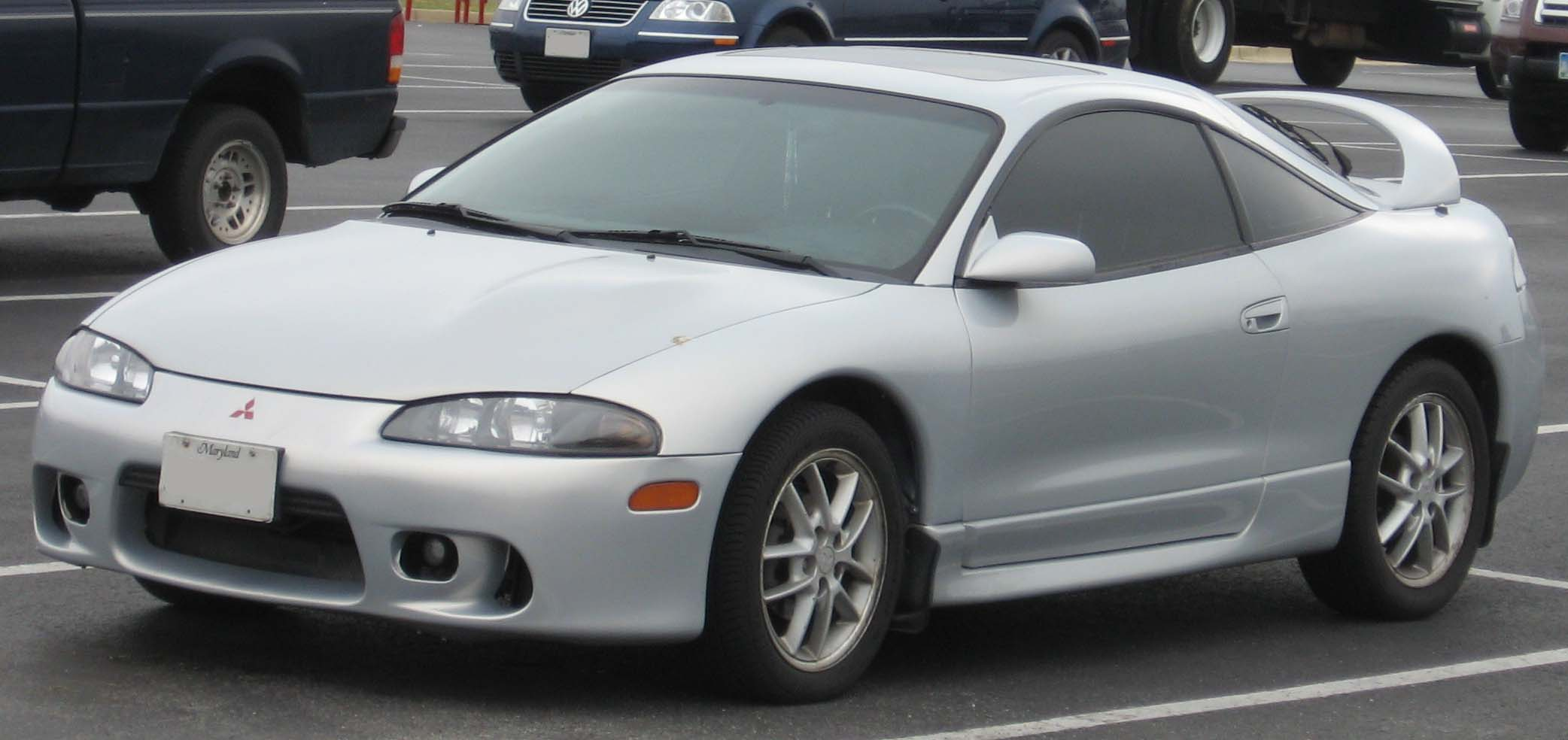 1995-1999 Mitsubishi Eclipse photographed in USA.